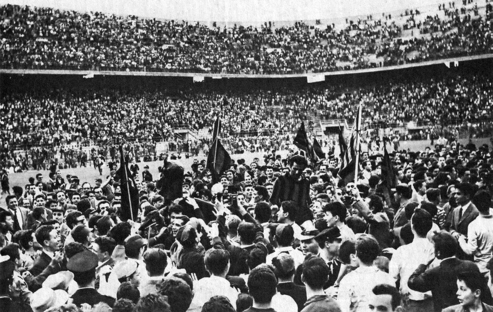 Milan, San Siro, June 2, 1959. At the end of the home victory versus A.C. Udinese (7-0), valid for the 33rd round of the Italian Championship 1958–59 Serie A, A.C. Milan's team and supporters celebrates the mathematics conquest of the Scudetto.